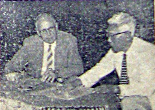 Harry R. Wellman of the University of California talking with Sardjito of Gadjah Mada University